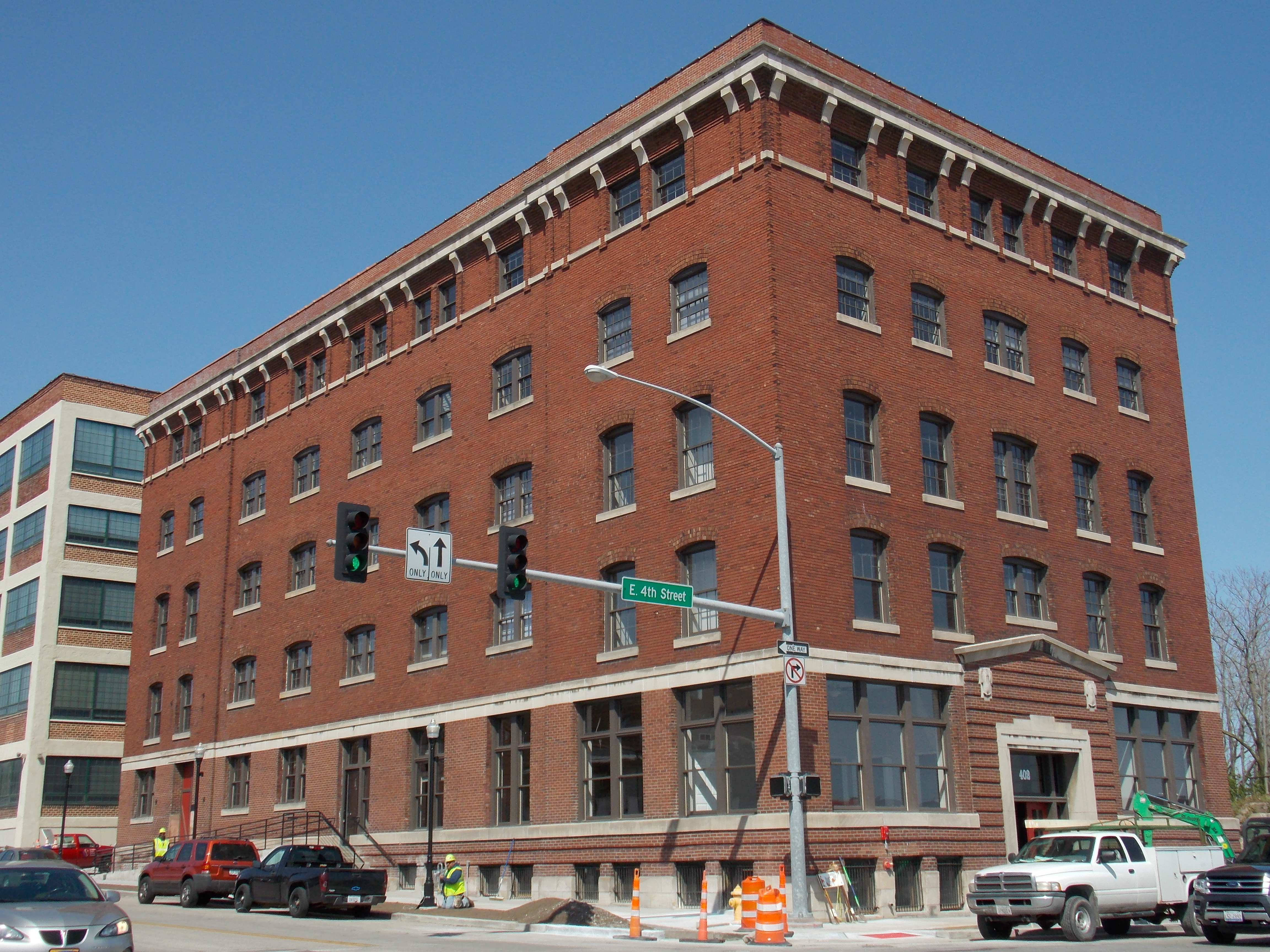 Halligan Coffee Co. Lofts is a contributing property in the Crescent Warehouse Historic District.